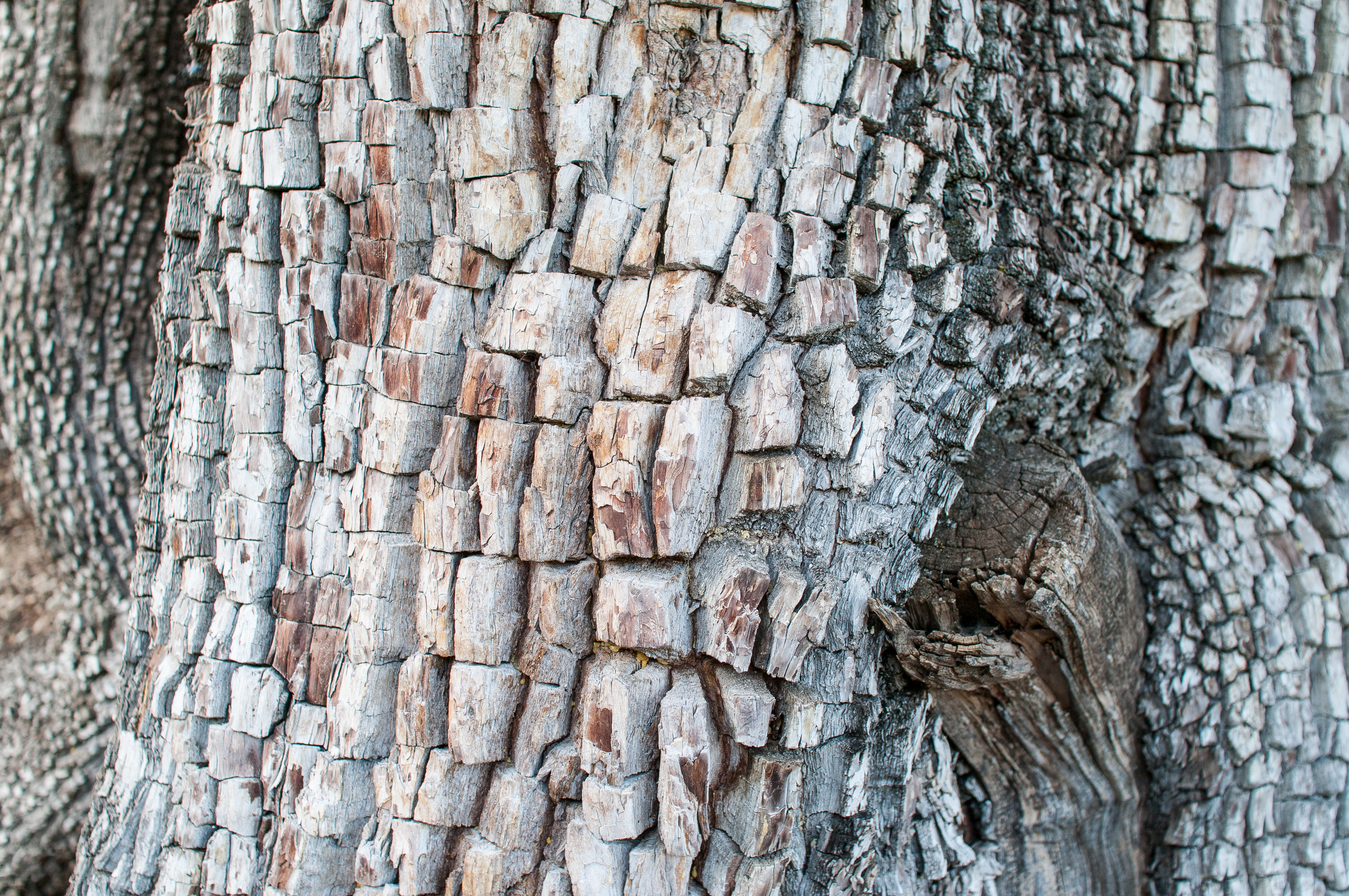 Juniperus deppeana (alligator juniper) in the Magdalena Mountains, New Mexico